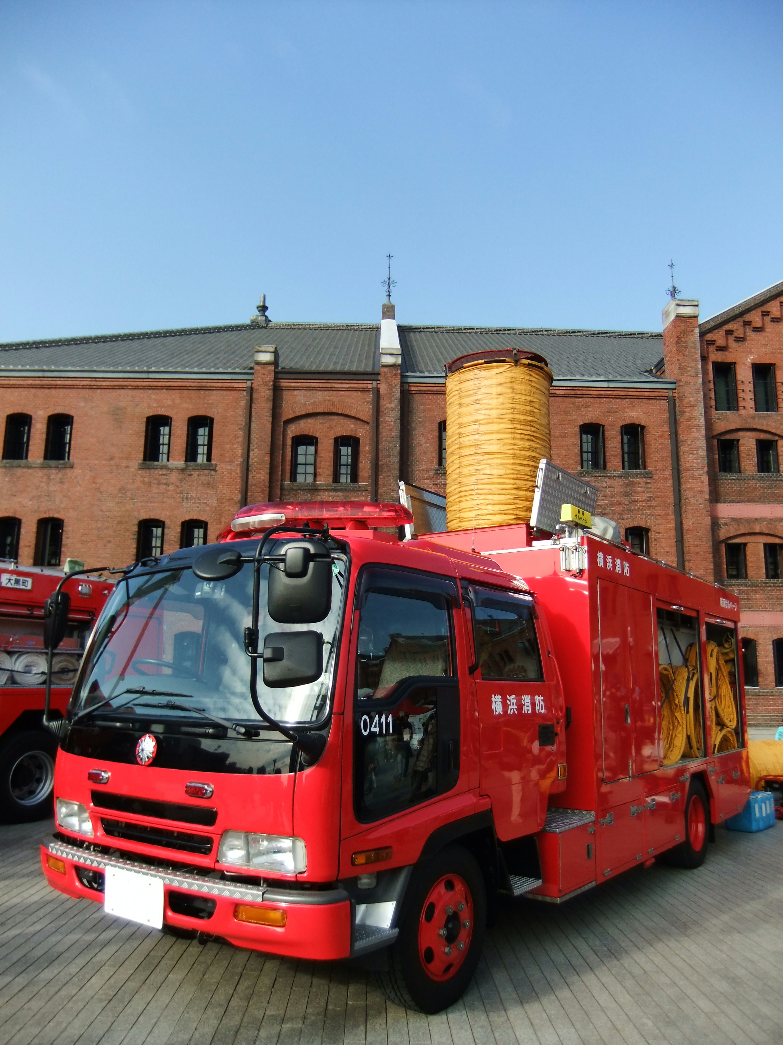 ISUZU FORWARD Double_cab-type , （There are a country and a region sold as F-series excluding a Japanese market, too.）, High expansion foam smoke ejector vehicle of Yokohama City Fire Department